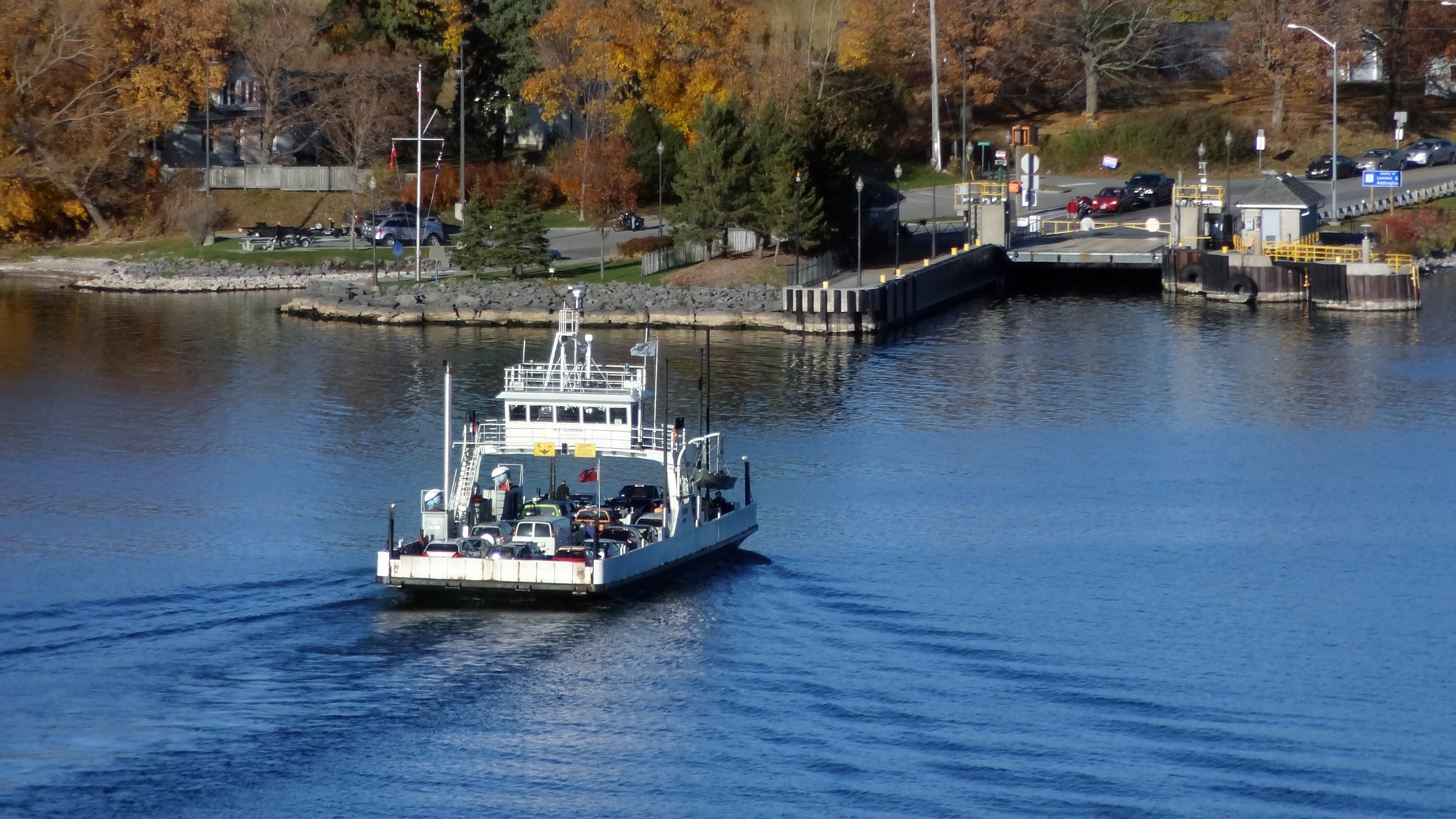 The Glenora-Adolphustown Ferry, Ontario Highway 33, near Picton, Canada. This is a free ferry for vehicles and pedestrians, connecting the section of Highway 33 that is interrupted by Lake Ontario's Bay of Quinte. In this image, the ferry is approaching the Adolphustown terminal.